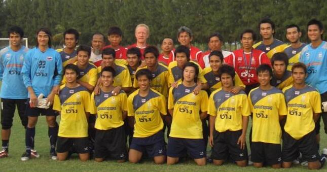 ทีมชาติไทยชุดเอเชียนเกมส์ 2006 Thailand national football team 2006 Asian Games Squad